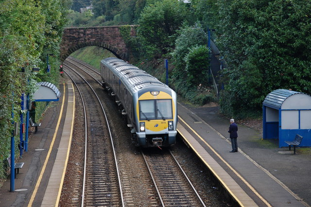 Marino railway station Original description: Marino station, Northern Ireland Railways Marino station opened in 1869 and closed in 1957. It re-opened in 1960. In common with other intermediate stations on the Belfast-Bangor line it is quiet outside the peak periods. The 11.20 Bangor-Lisburn is stopping as one passenger waits to board. This is an area of low density housing with multiple car ownership – not the sort of place to generate business for public transport.